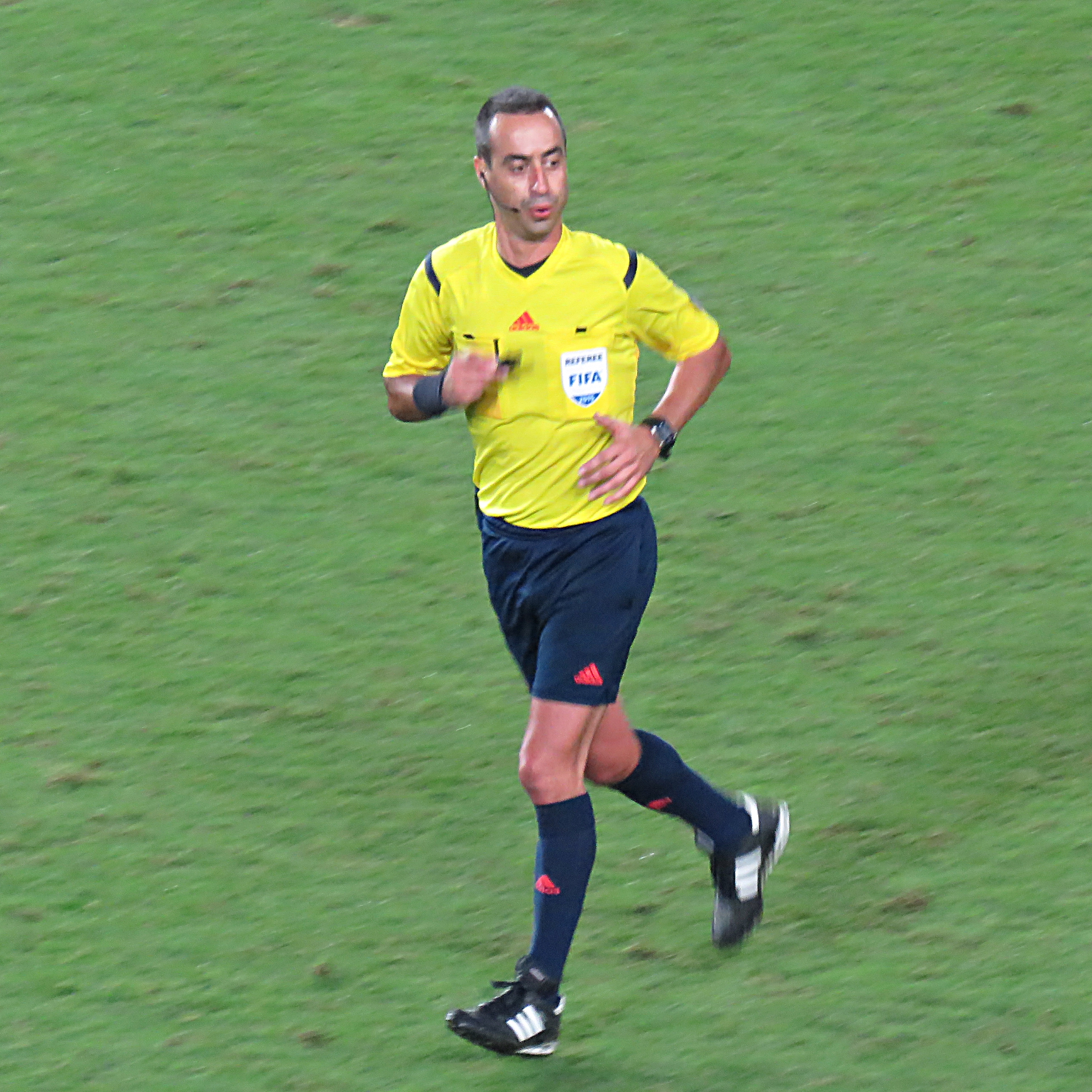 Israel vs. Cyprus - October 10, 2015